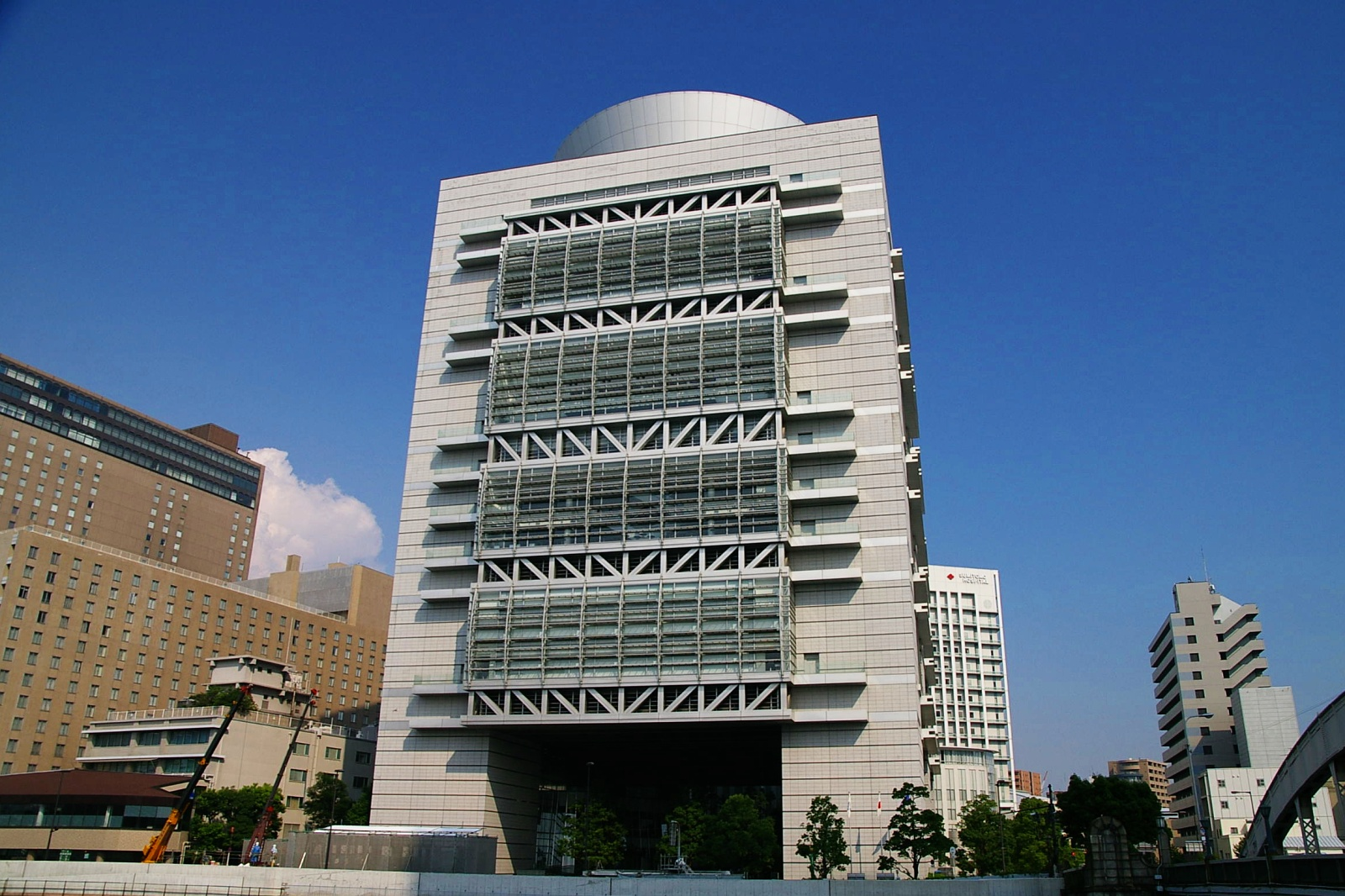 OICC (Osaka International Conference Center)